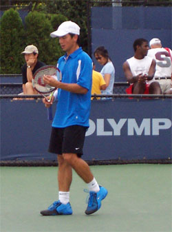 Bjorn Phau At The 2004 U.S. Open Qualifying